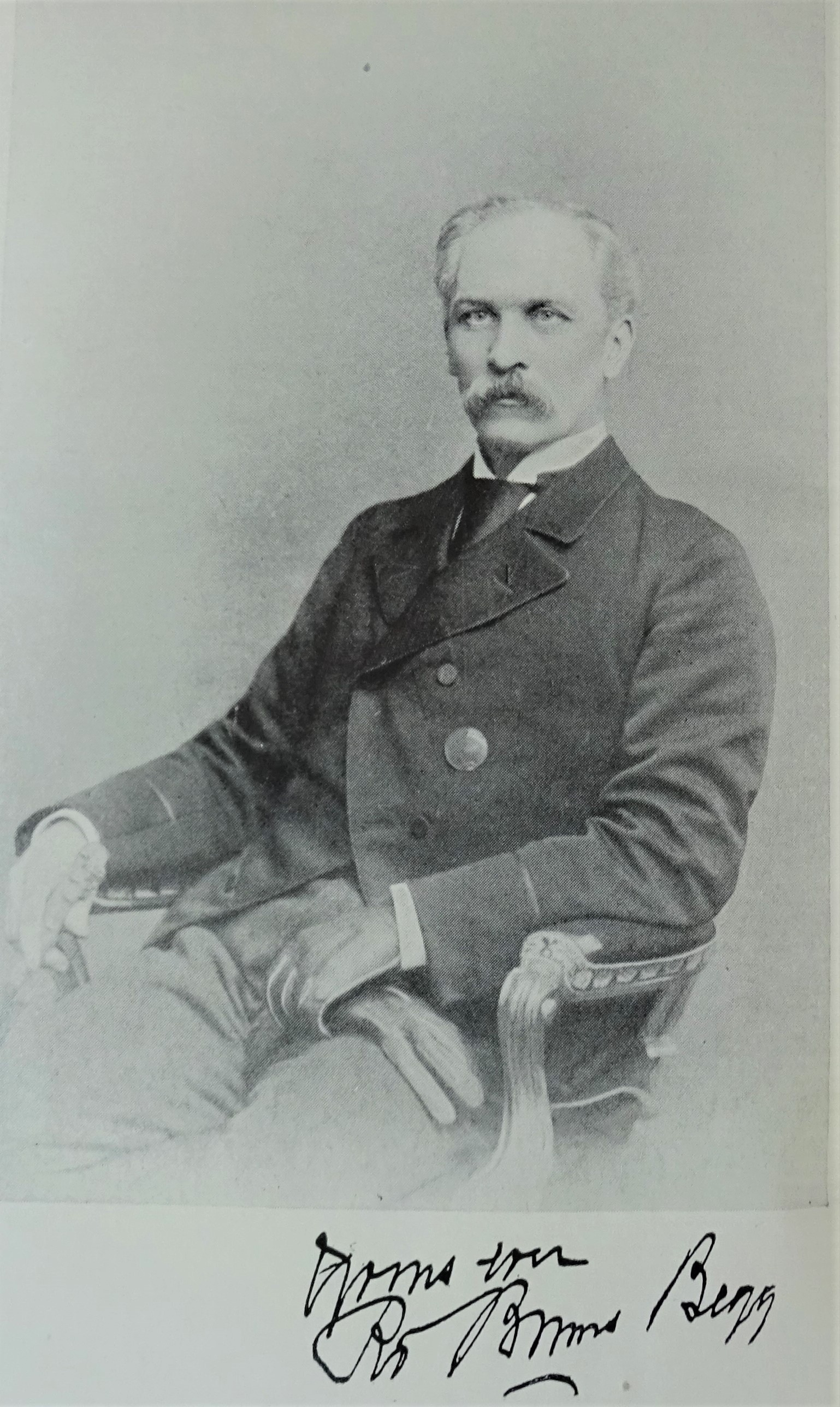 Robert was the great nephew of Robert Burns and the grandson of Isabella Begg nee Burns, the poet's youngest sister.